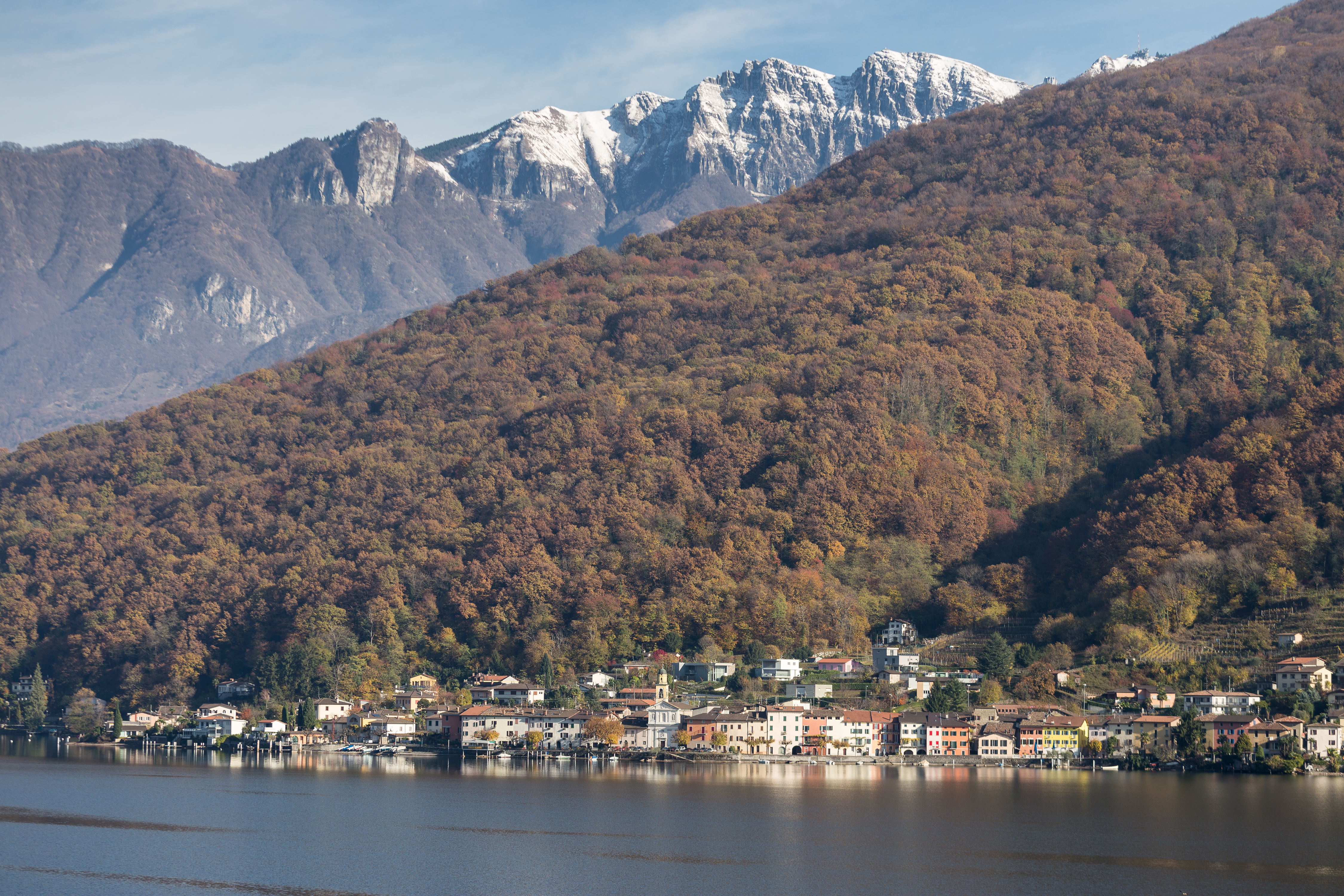 The village Brusino Arsizio at Lac Lugano, Ticino, Switzerland